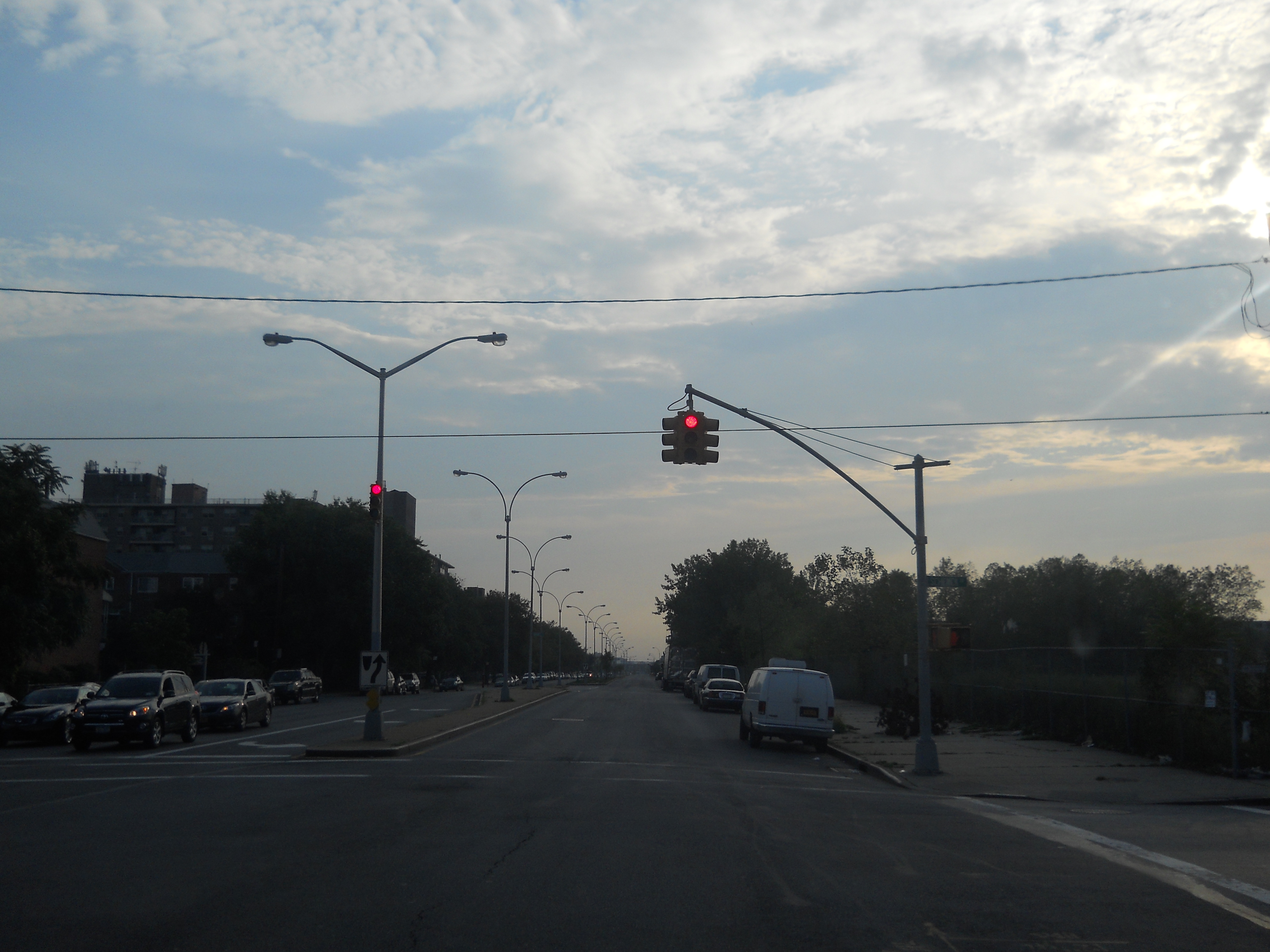 Flatlands Avenue in East New York, Brooklyn NY